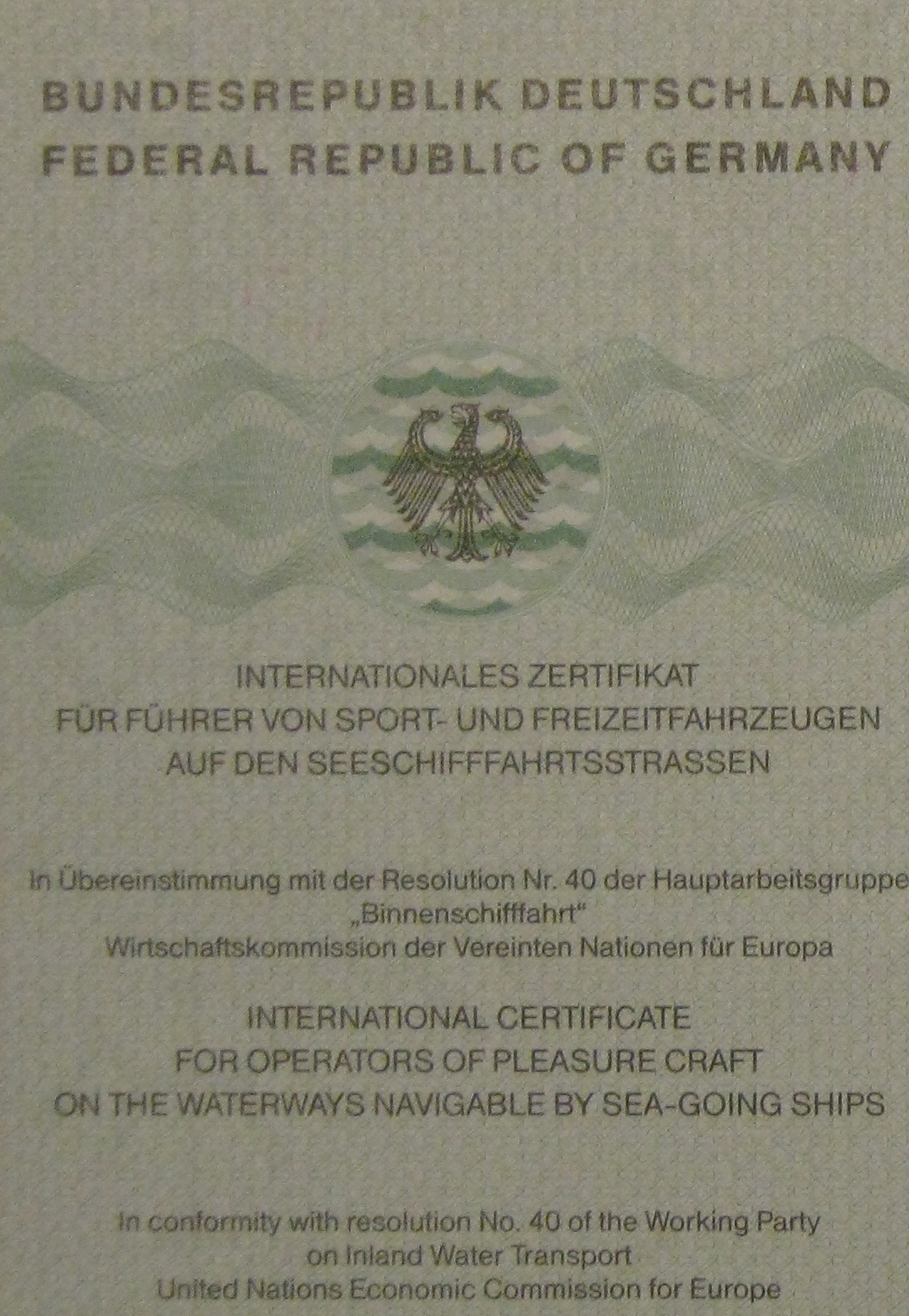 International Certificate of Competence Germany